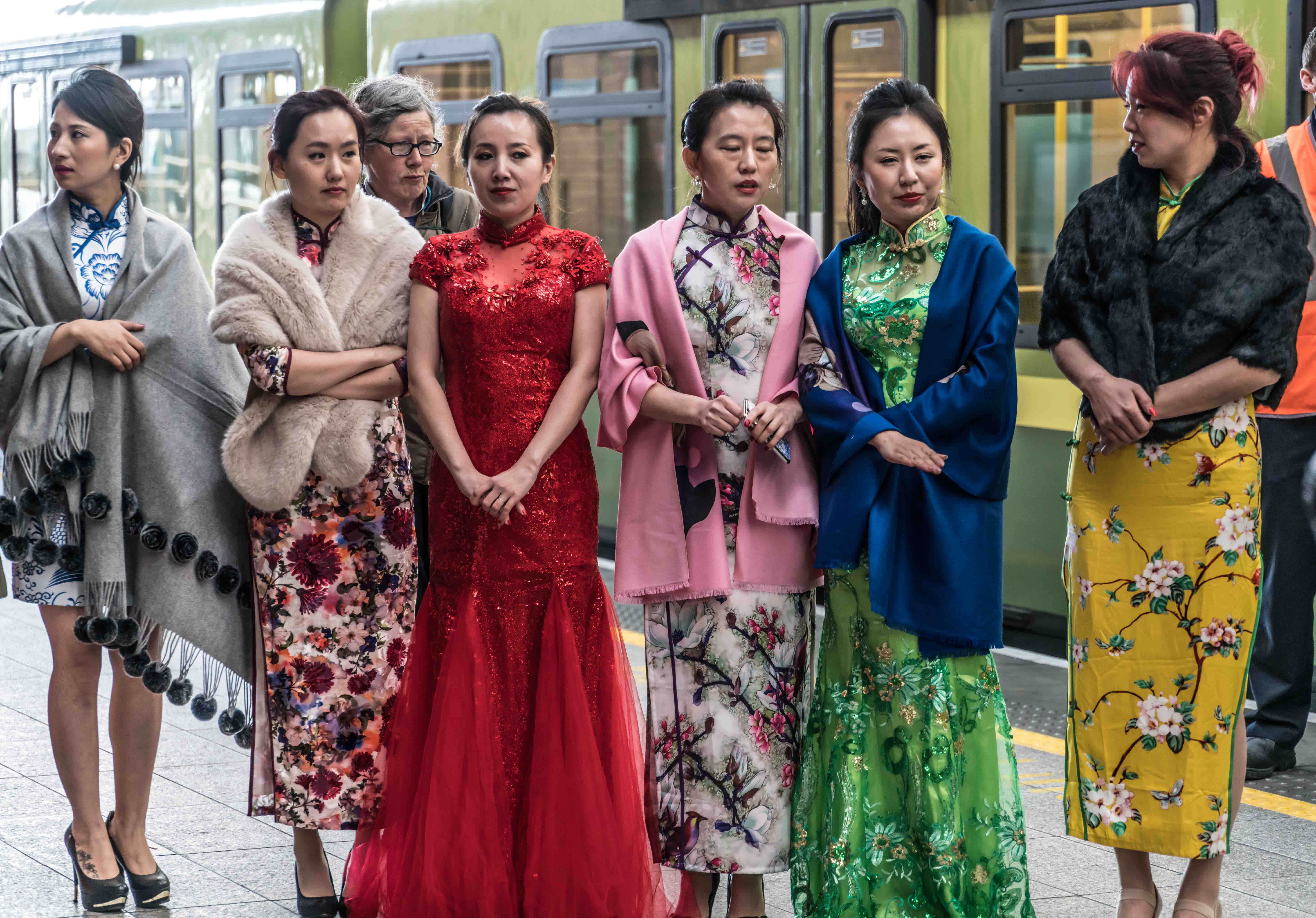 his morning I was on my way to Howth when a nice Chinese lady, thinking that I was a press photographer, invited me to photograph the official Chinese delegation so took the opportunity even though I did not have an ideal lens [my fall-back excuse for not being a good portrait photographer]. A delegation from the Shanghai Metro were in Connolly Station this morning as the two-week-long tribute to Chinese poetry was launched. The China Cheongsam Association of Ireland performed traditional Chinese music and dance on platform four from 11am, and there was some Chinese cuisine samples for passengers who got there early as i was planning to have lunch in Howth I did not try the food. Last year Chinese commuters in the city of Shanghai were treated to the poetry of W.B. Yeats as they travelled on board the local Metro service and as they passed through various stations as part of the Yeats 2015 celebrations. This year CIE will continue the relationship by displaying famous Chinese poems on board the DART and at Stations during February to mark Chinese New Year. The poems will be displayed in Chinese and English.